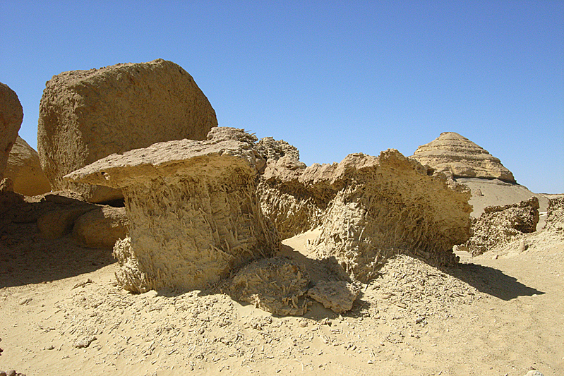 Mangroves, Whale Valley (Wadi el-Hitan), Libyan desert, Egypt